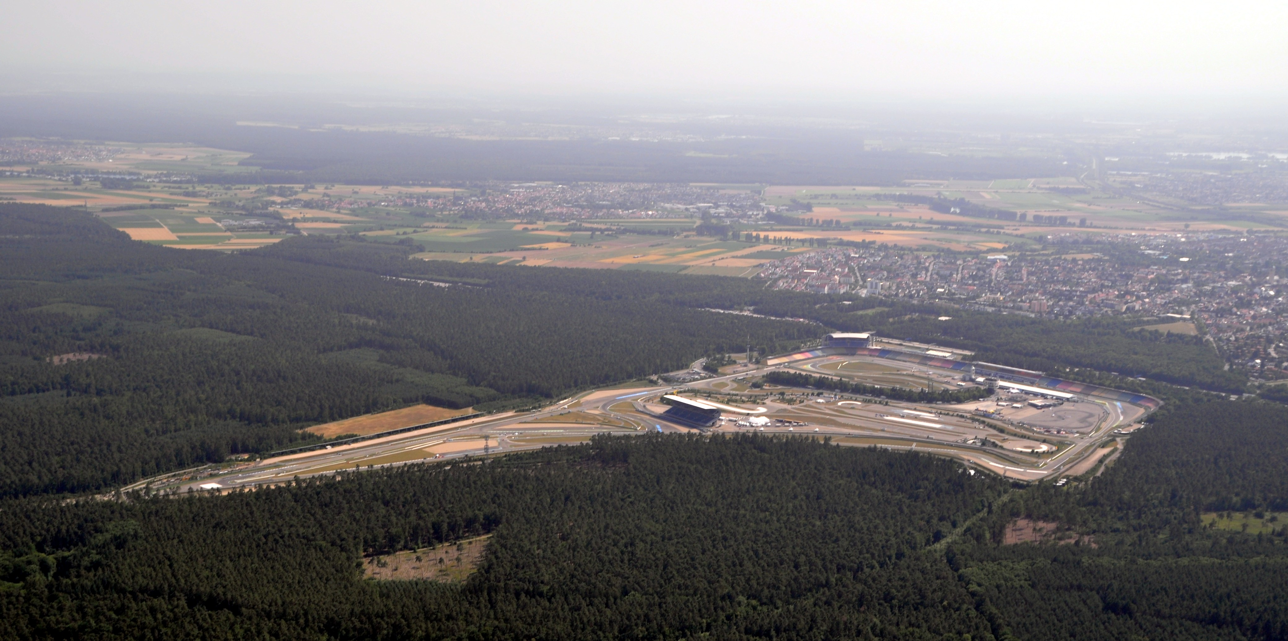 Hockenheimring Baden-Württemberg airview